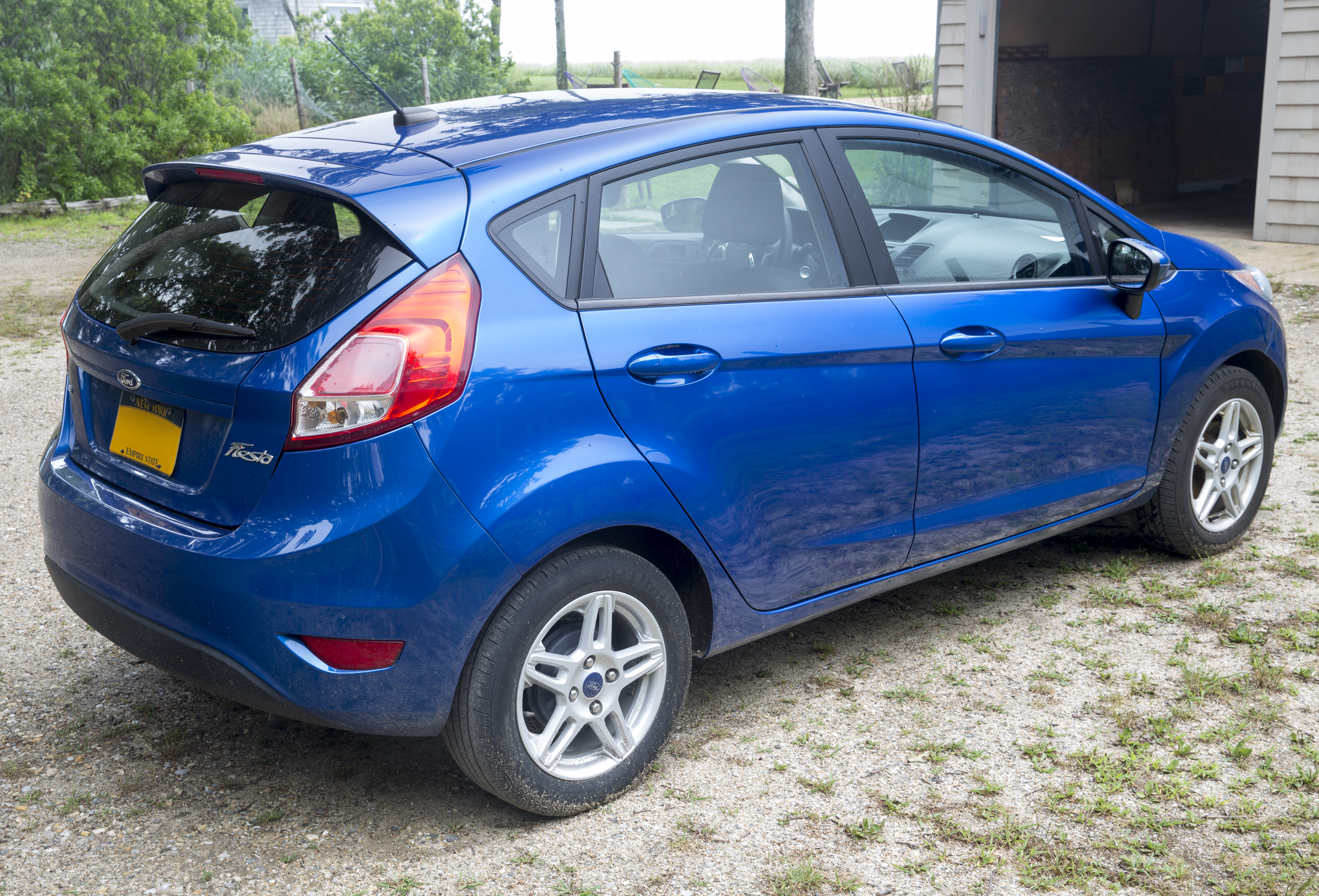 2018 Ford Fiesta SE hatchback. 1.6-liter Ti-VCT engine with 120 hp, built in Cuautitlan, Mexico.